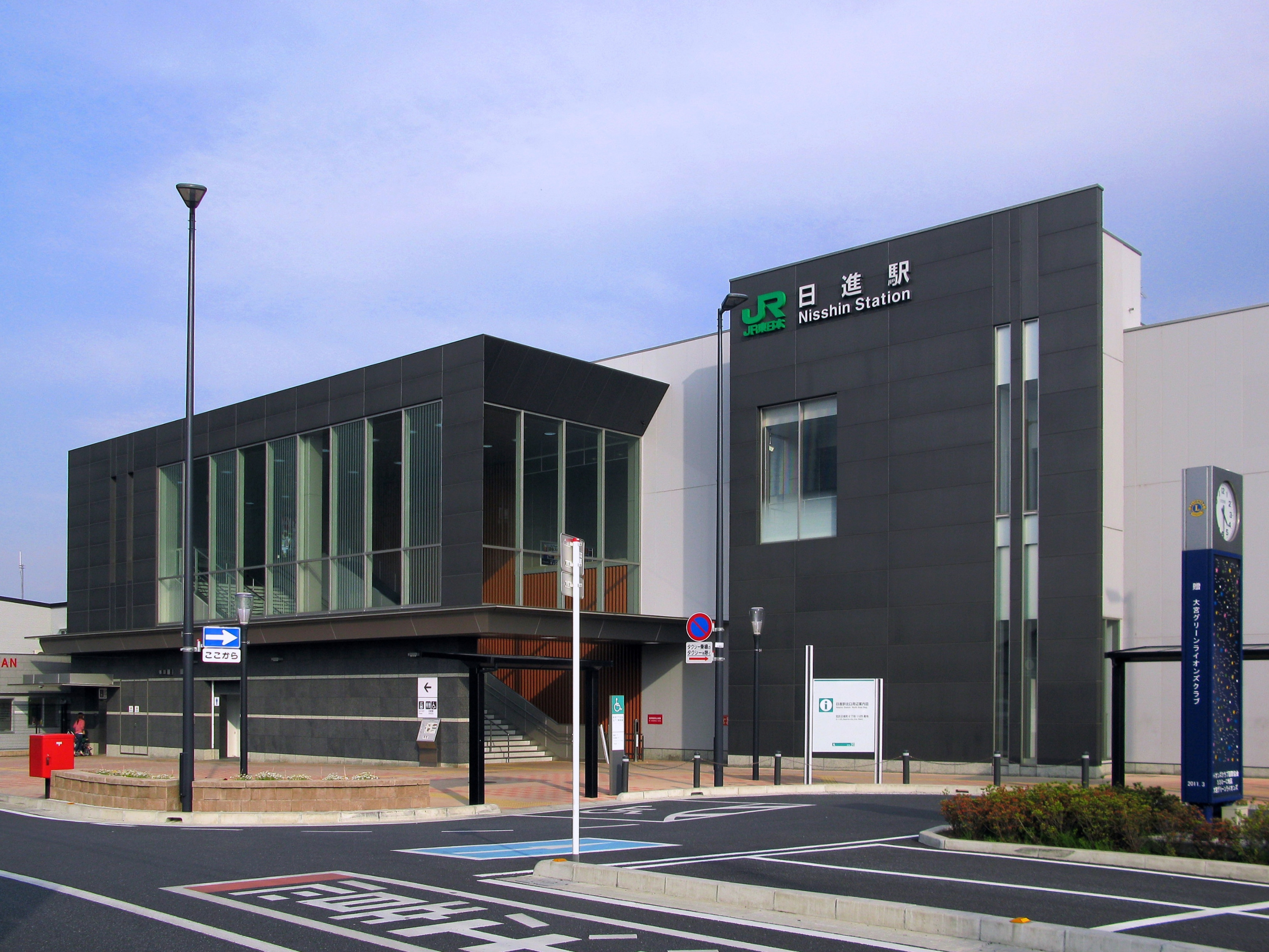 North side of Nisshin Station on the Kawagoe Line in Saitama Prefecture